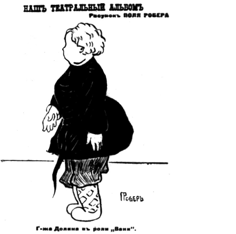 Singer M. I. Dolina in the role of Vanya in the opera "A life for the Tsar"